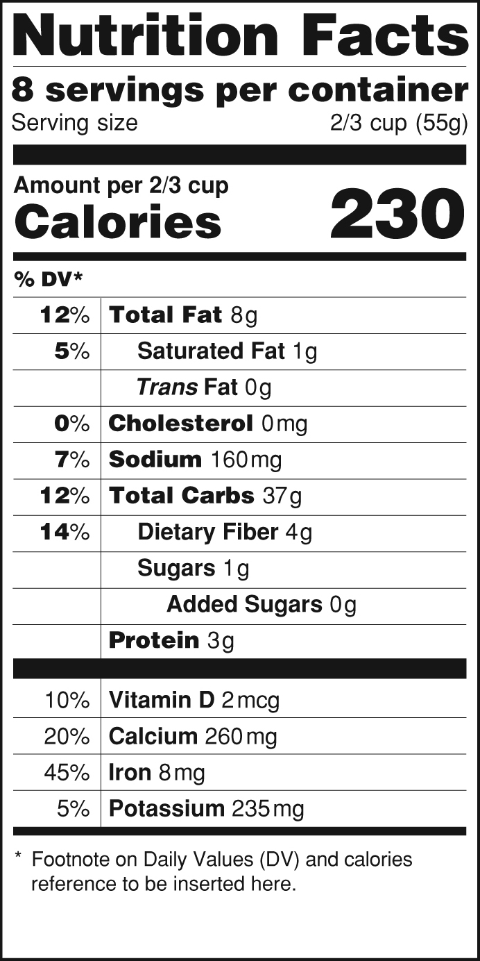 The FDA’s proposed new Nutrition Facts label reflects the latest scientific thinking about nutrition and the links between what people eat and chronic diseases like obesity and cardiovascular disease. FDA is proposing changes to the label based on new nutrition and public health research, the most recent dietary recommendations from expert groups, and input from four Advance Notices of Proposed Rule Making and various citizens’ petitions. Among the changes being considered for the proposed rules are: modifications to the required nutrients, based on the latest nutrition science; updated serving size requirements and labeling requirements for certain package sizes; and a refreshed design.